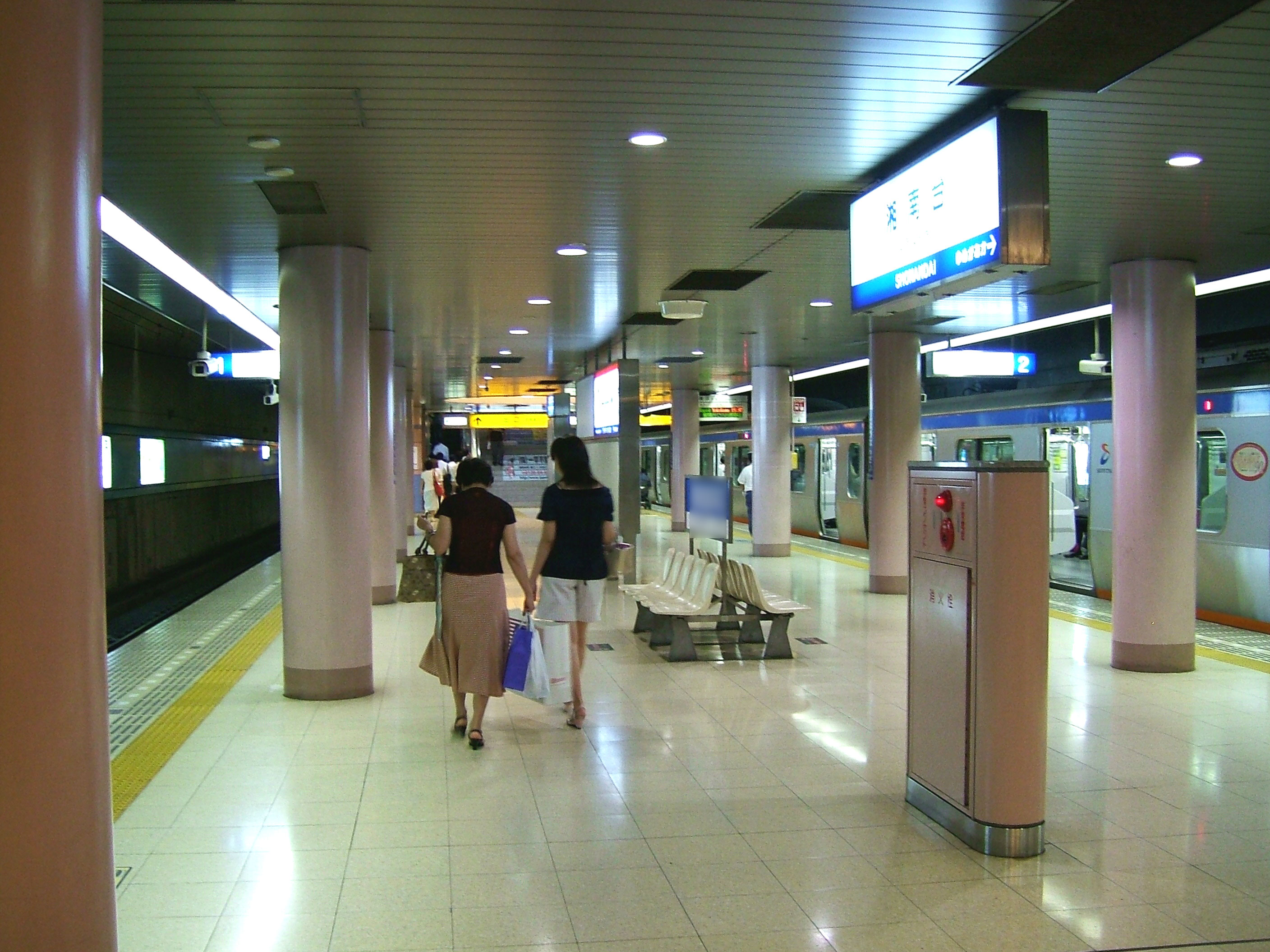 The platform at Shōnandai Station on the Sagami Railway Izumino Line in Fujisawa city, Kanagawa prefecture, Japan